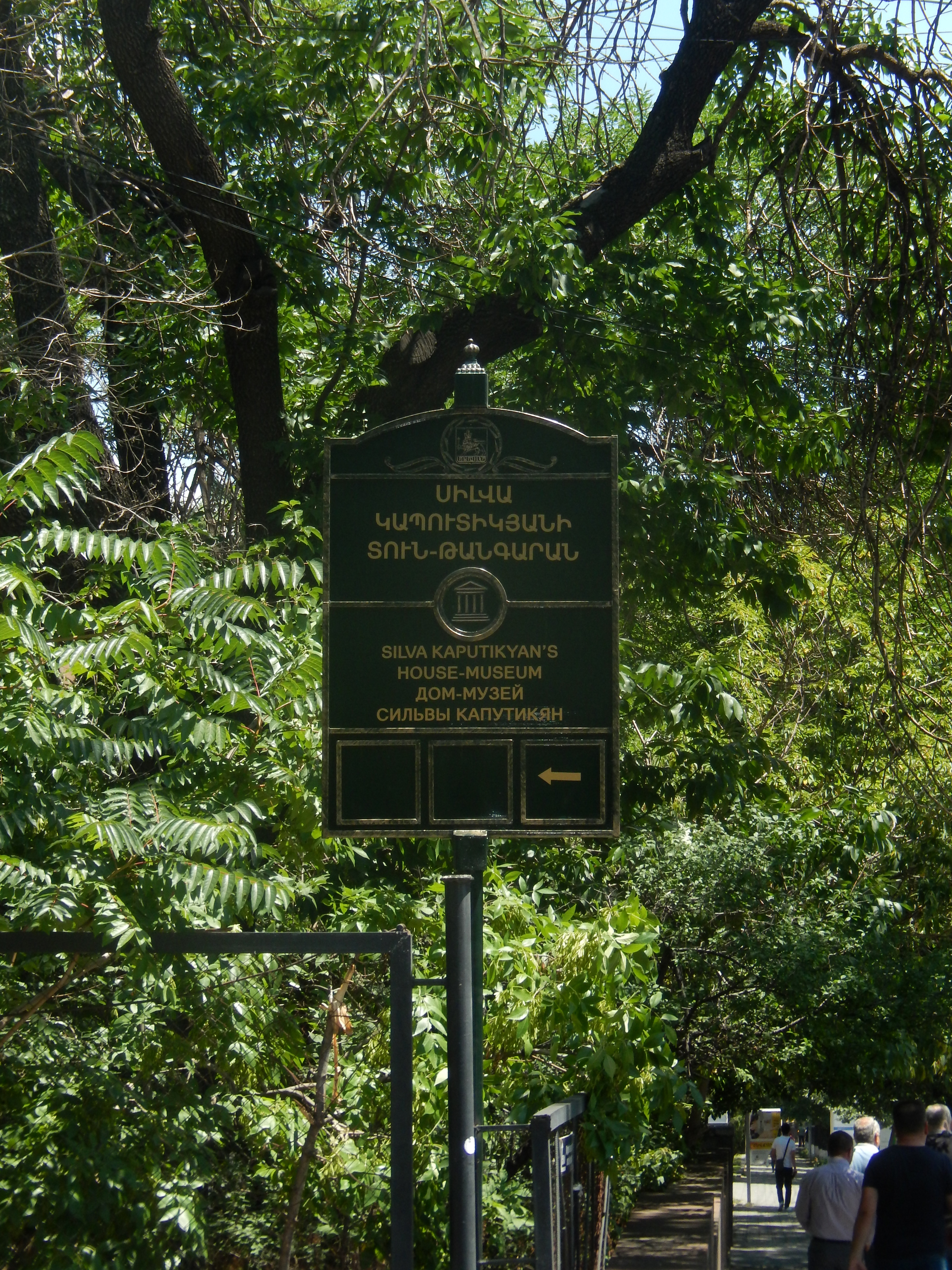 Silva Kaputikyan Home Museum sign on Silva Kputikyan street and Baghramyan Avenue crossroad